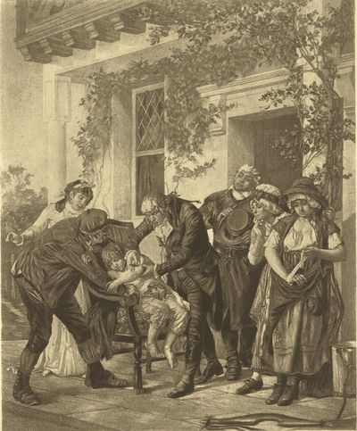 Edward Jenner vaccinating James Phipps, a boy of eight, on May 14, 1796. Lithograph by French artist Gaston Mélingue from the late 19th century